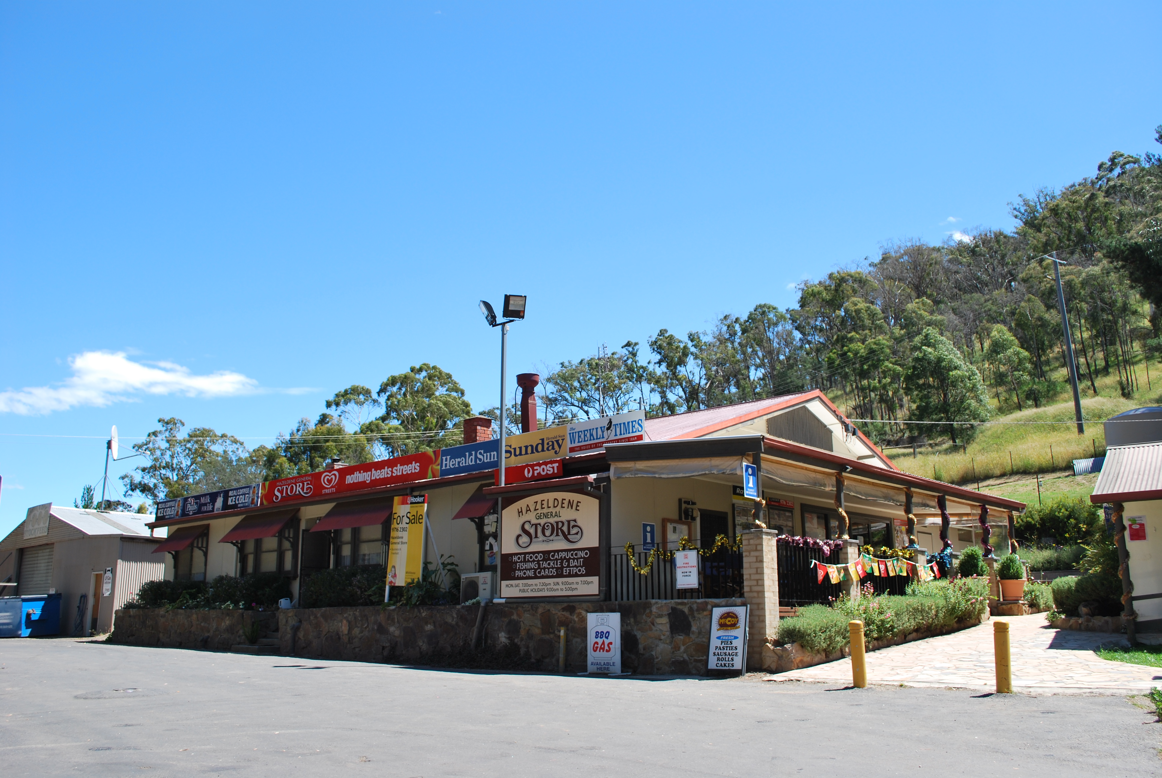 General store at Hazeldene, Victoria